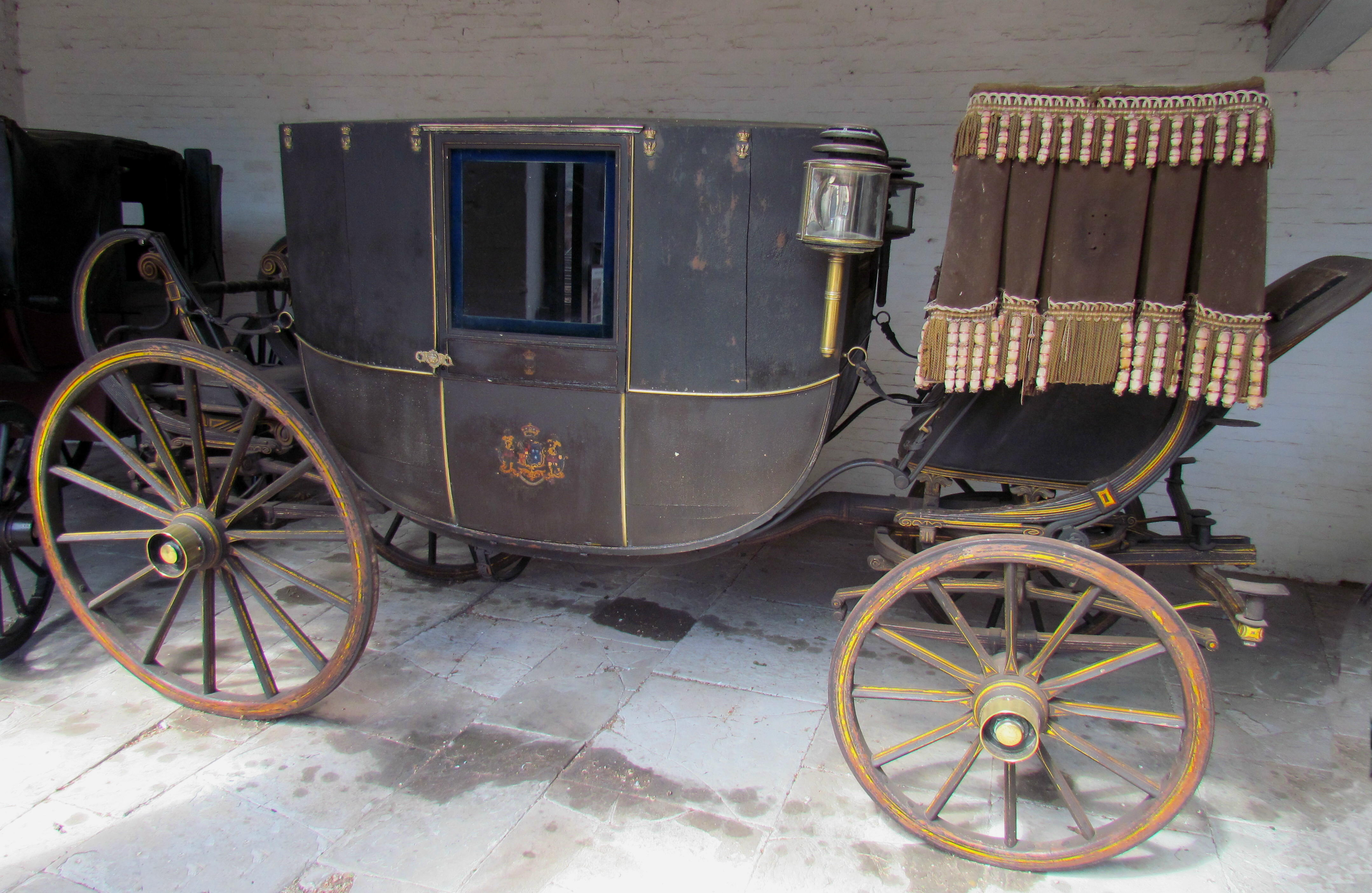 State coach circa 1890, for the Marquess of Hertford, Ragley Hall Warwickshire. Made by Barker & Co of Chandos Street